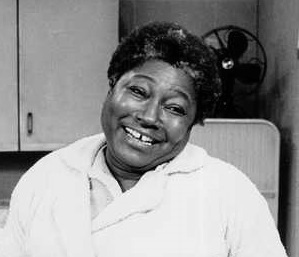 press photo of Esther Rolle in 1974